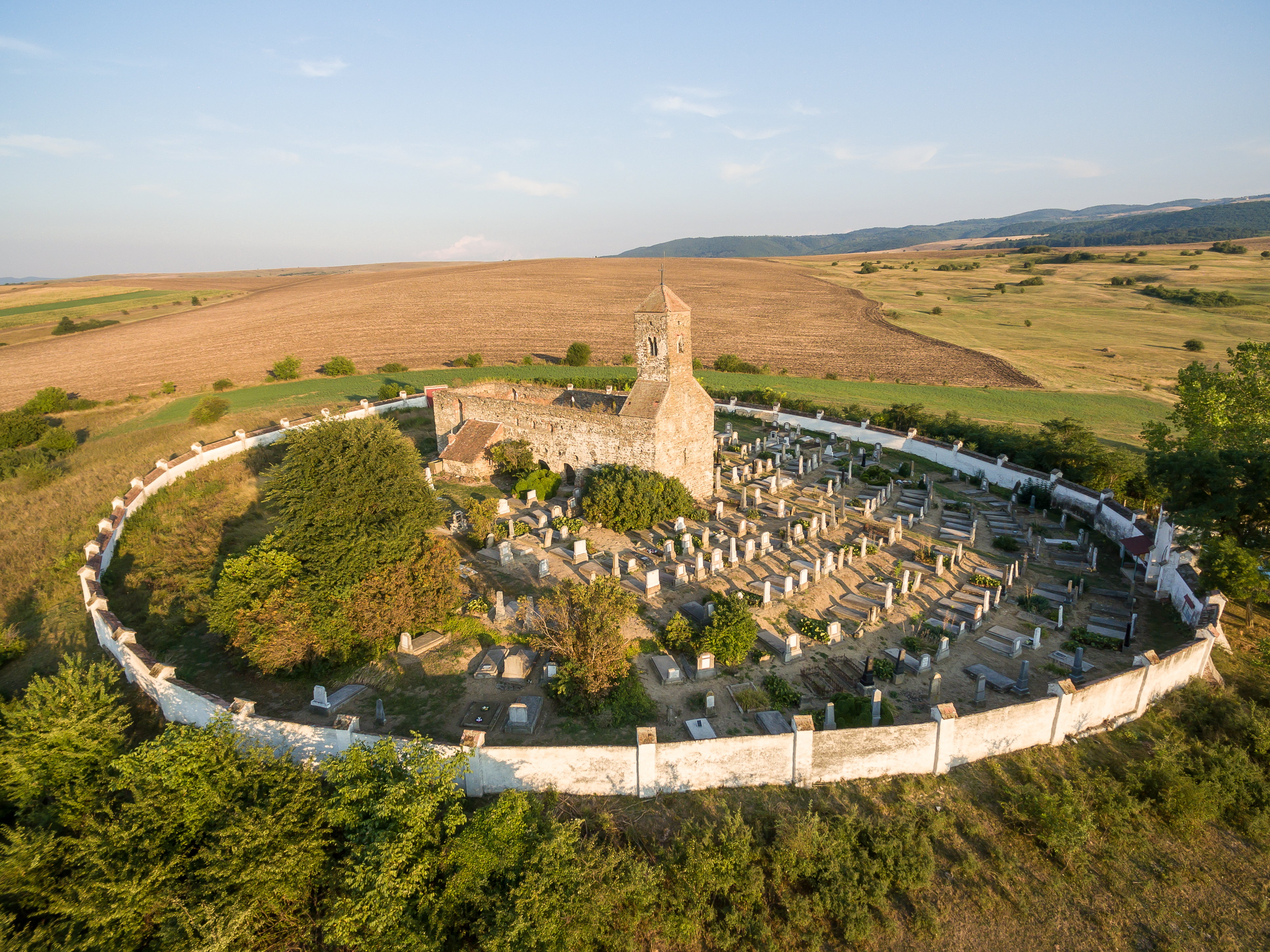 Mountain church Garbova, Romania